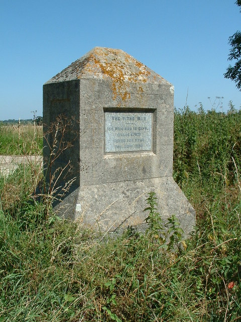 Monument to the tithe war. Monument to the tithe war near to Magpie Green Suffolk for close up of plaque see 729079